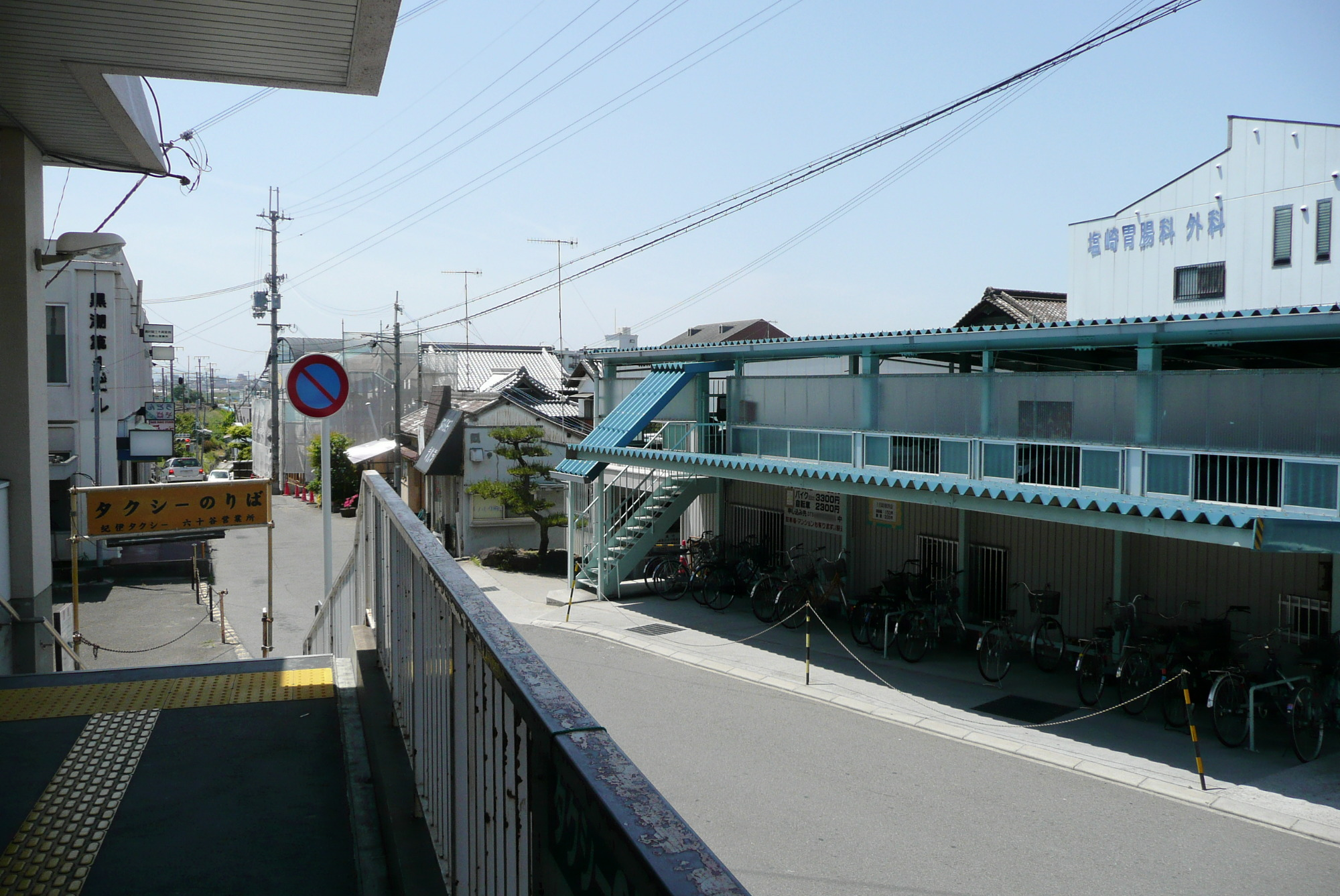 The vicinity of Musota Station (south).